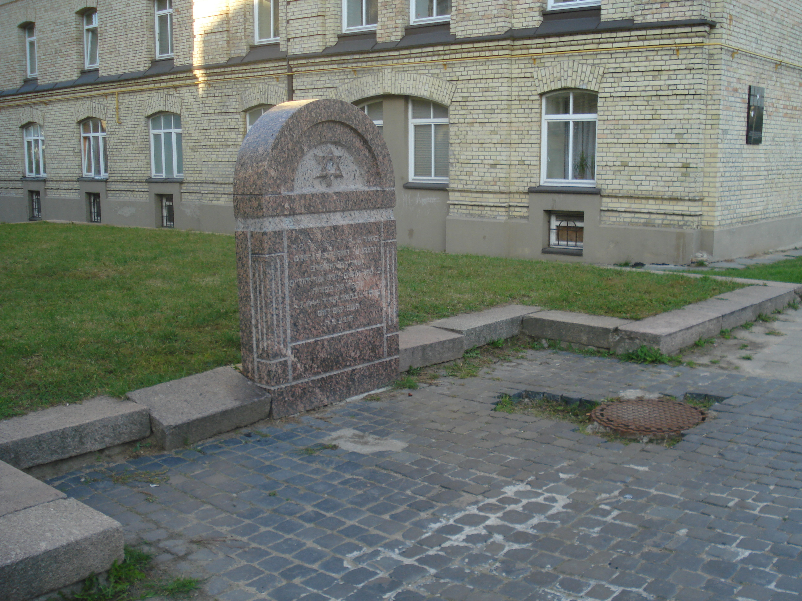 Monument in the place where about 400 people were burried in the backyard of the Nazi working camp (Subačiaus g.)